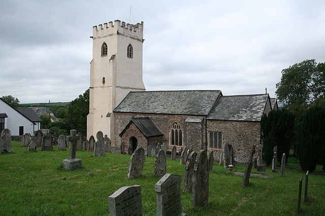 Knowstone: St Peter’s church. Looking north west